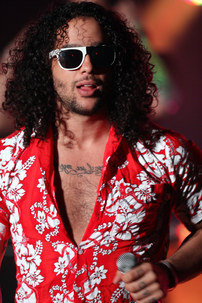 LMFAO at the Entertainment Quarter, Moore Park, Sydney 2011.